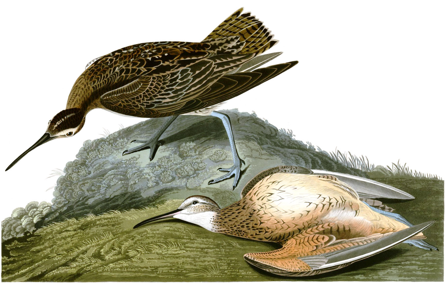 Eskimo Curlew , Numenius borealis, hand-colored engraving